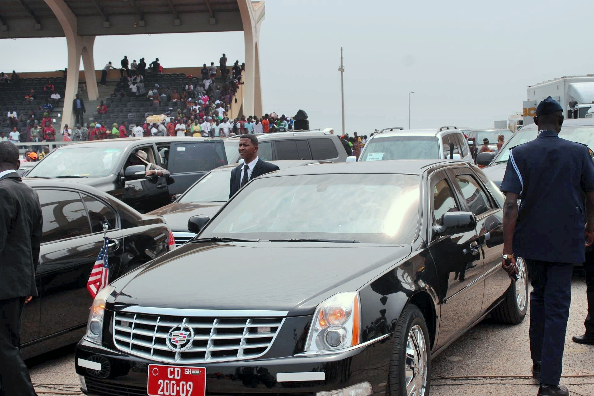 Limousine of the US-Ambassador to Ghana on the Independence Square in Osu (Accra, Ghana) during the public ceremony to the inauguration of John Dramani Mahama as President of the Republic of Ghana